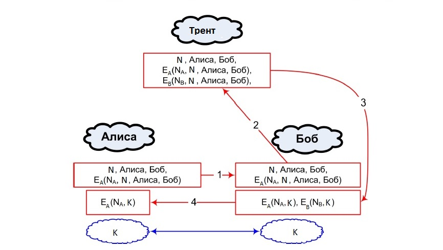 Графическое описание работы протокола распространения ключей Otway-Rees